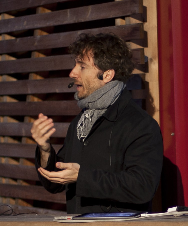 Thomas Heatherwick discussing his projects at Strelka Institute, 29.09.2011